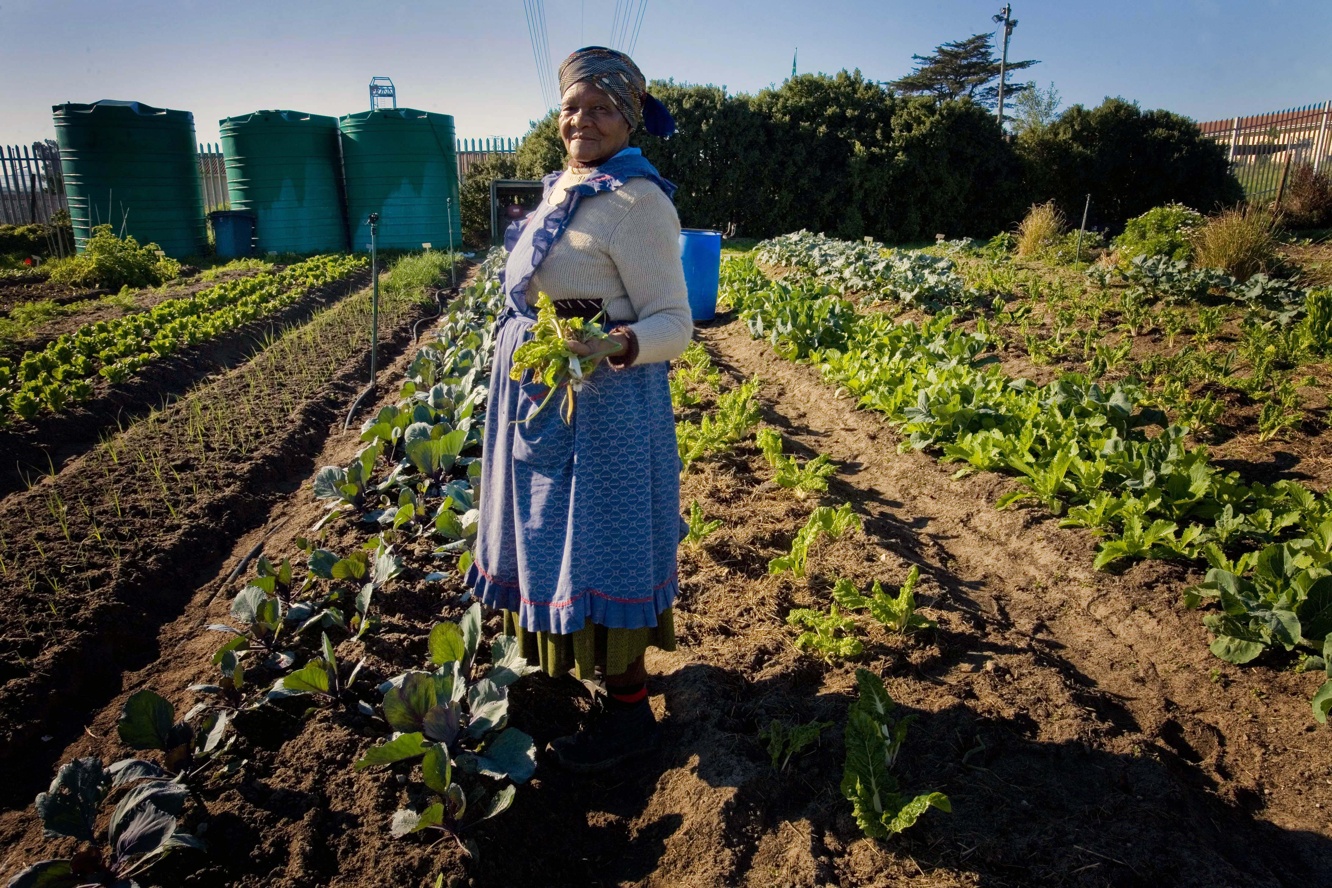 Philipina Ndamane holds up some of the vegetables she has grown in the Abalama Bezehkaya garden in Guguletu, Cape Town, South Africa on the 9th June, 2009. The Abalami Bezehkaya project, eaches people better farming techniques and sells fresh produce weekly to generate incomes for the farmers involved.